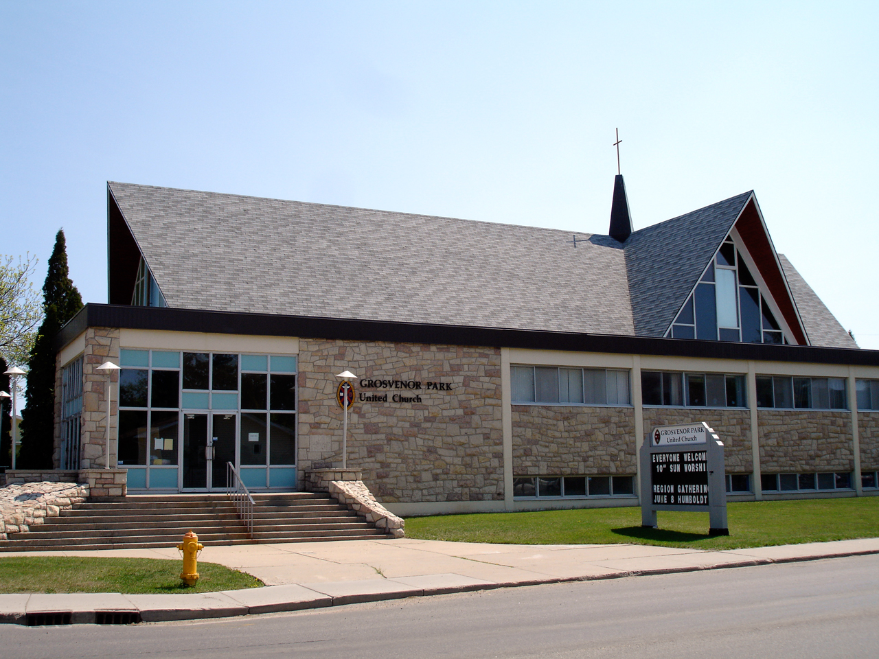 Grosvenor Park United Church, on the corner of 14th Street East and Cumberland Avenue South in Saskatoon, Saskatchewan, Canada.